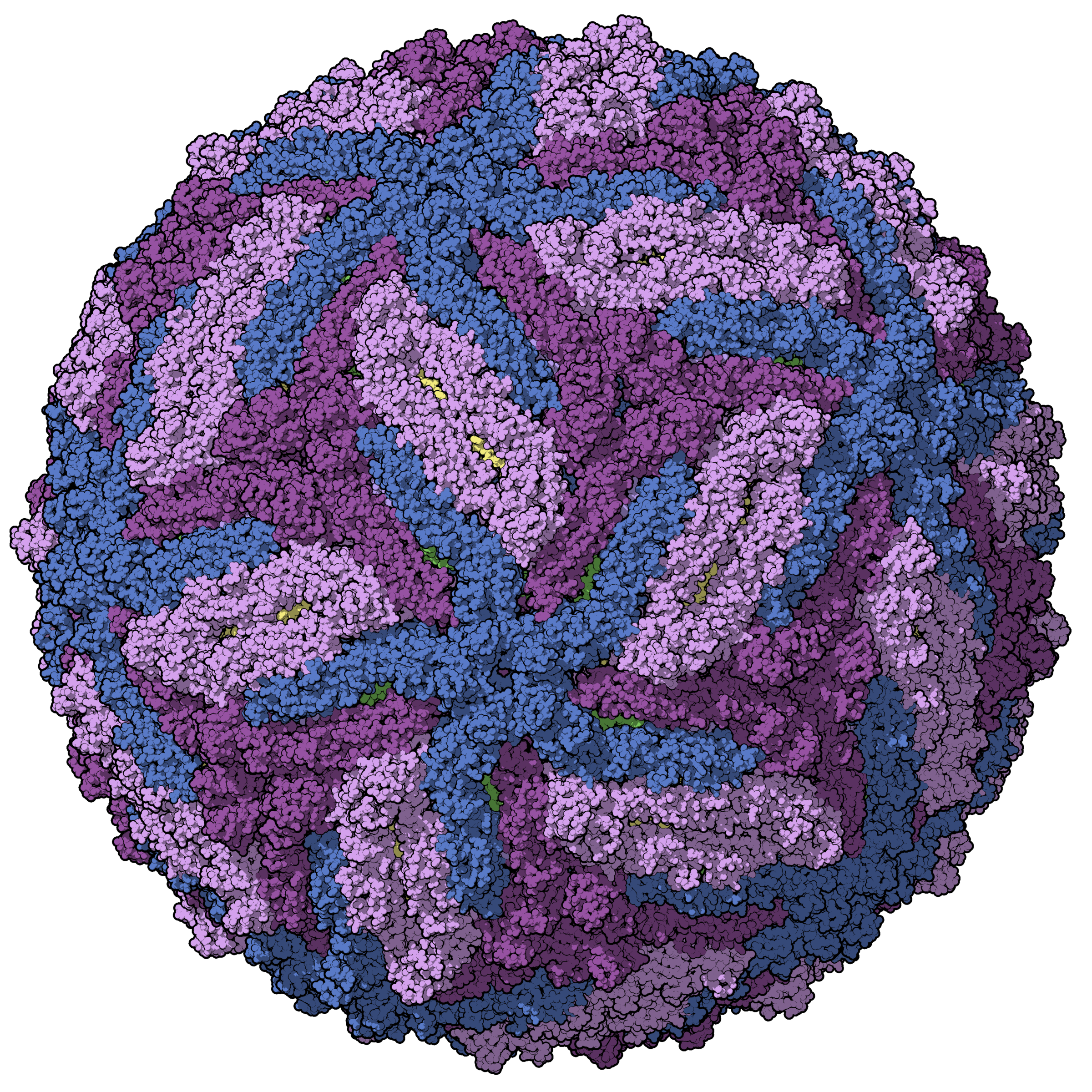 Zika virus capsid, colored per chains. Source: Sirohi, D., Chen, Z., Sun, L., Klose, T., Pierson, T., Rossmann, M. and Kuhn, R. (2016). The 3.8Å resolution cryo-EM structure of Zika virus. Available at: [Checked on 3 Apr. 2016] Image created using QuteMol and GIMP.